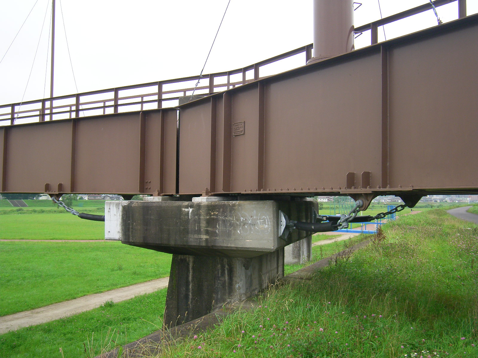 Main Sewer Pipe Line Bridge for Natori River's Left Bank (Natori-gawa Sagan Kansen Gesuikan-kyō). A bridge over the Hirose River (not Natori). This photograph was taken toward southwest from the left bank of Hirose River. Wakabayashi, Wakabayashi word, Sendai, Miyagi prefecture, Japan.